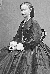 Agathe Backer Grøndahl (1847–1907) was a pianist and komponist.